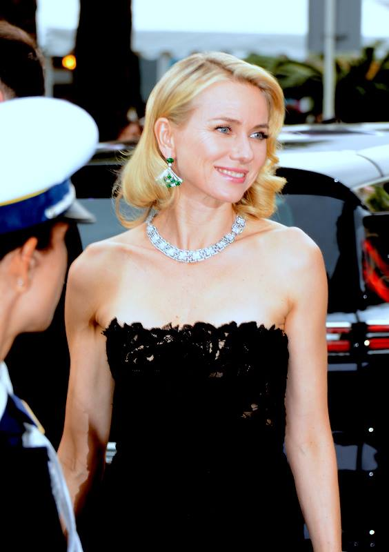 Naomi Watts at the Cannes film festival